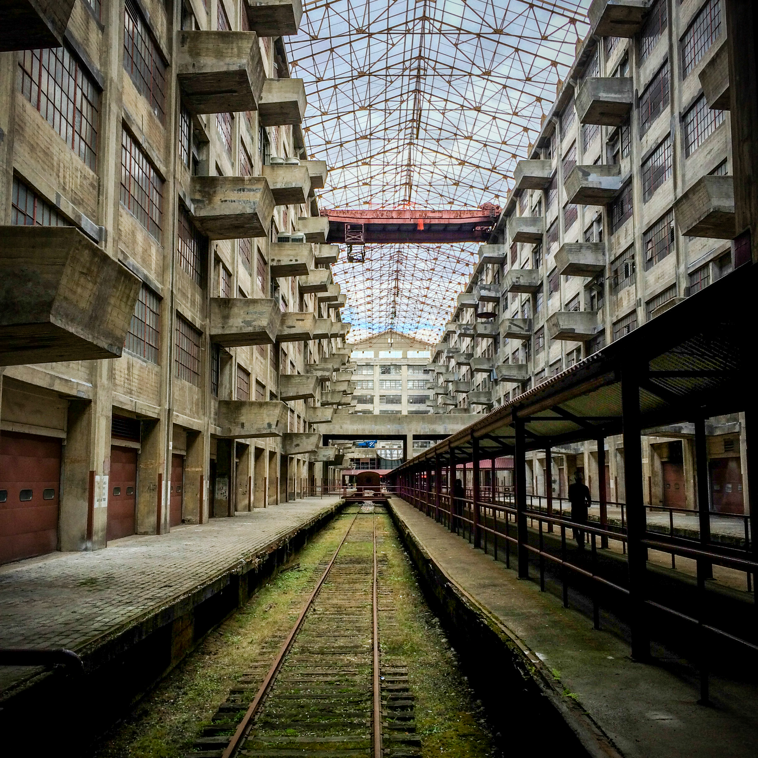 Brooklyn Army Terminal. #OHNYwknd Site: Brooklyn Army Terminal.